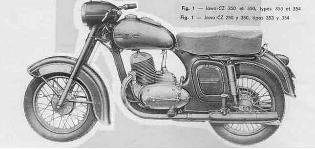 Picture with design elements of Jawa 250 - 353/01 and Jawa 350 -354/01 motorcycles